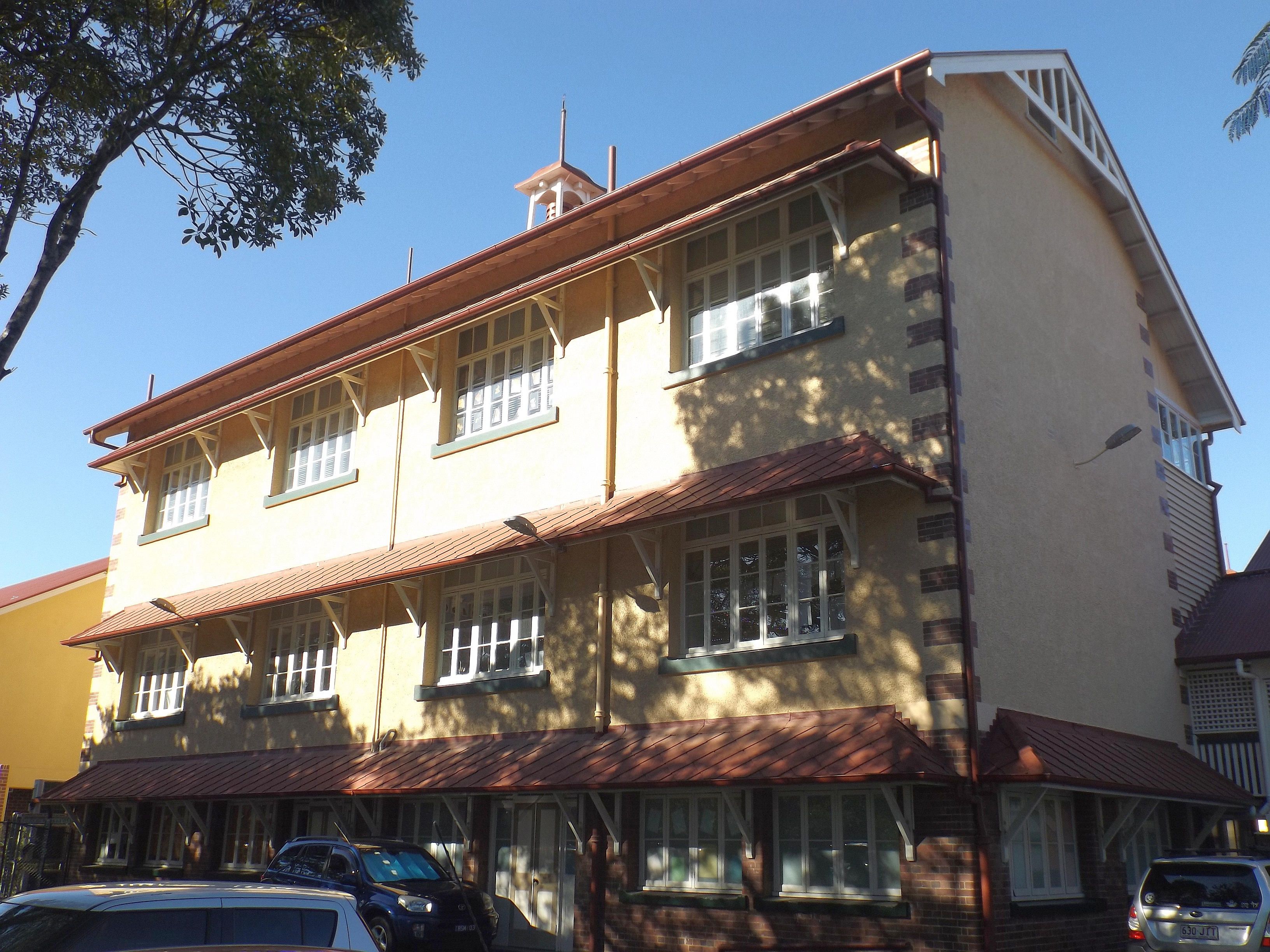 Photo of the front of Wooloowin State School classrooms at Wooloowin in Brisbane, Queensland, Australia.